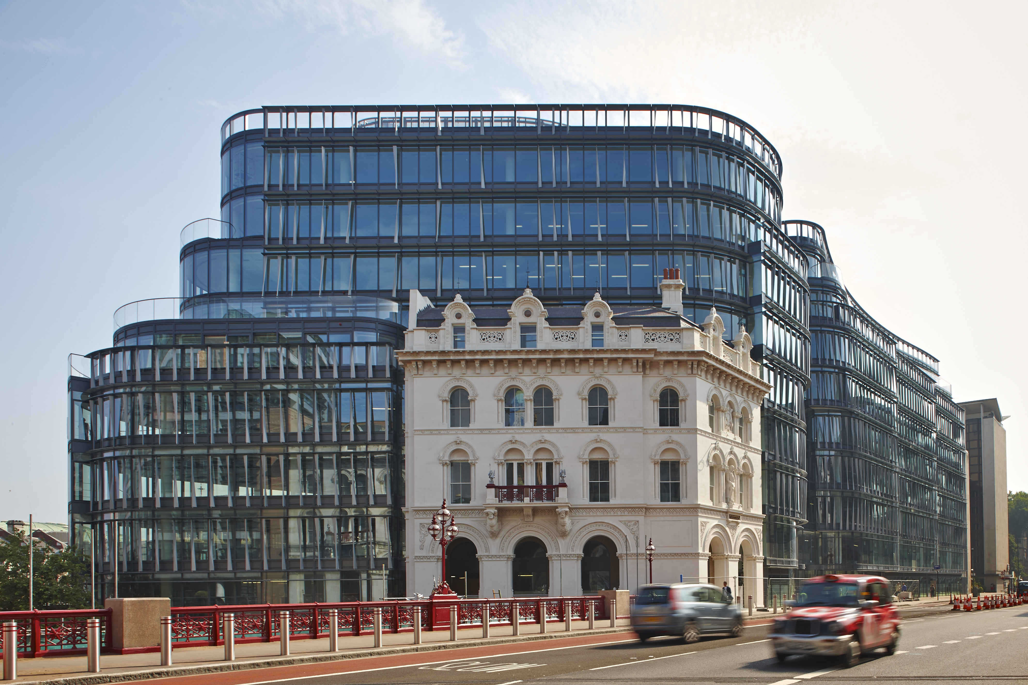 Sixty London Photo